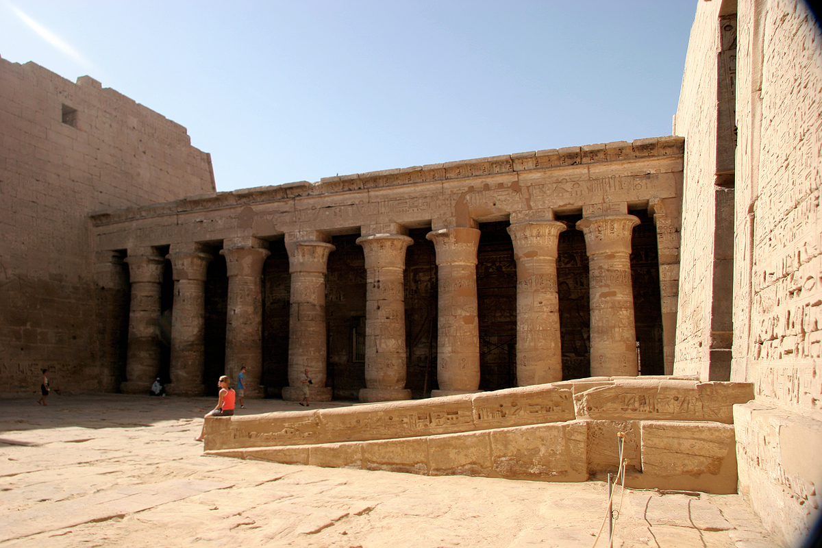 Mortuary temple of Ramesses III